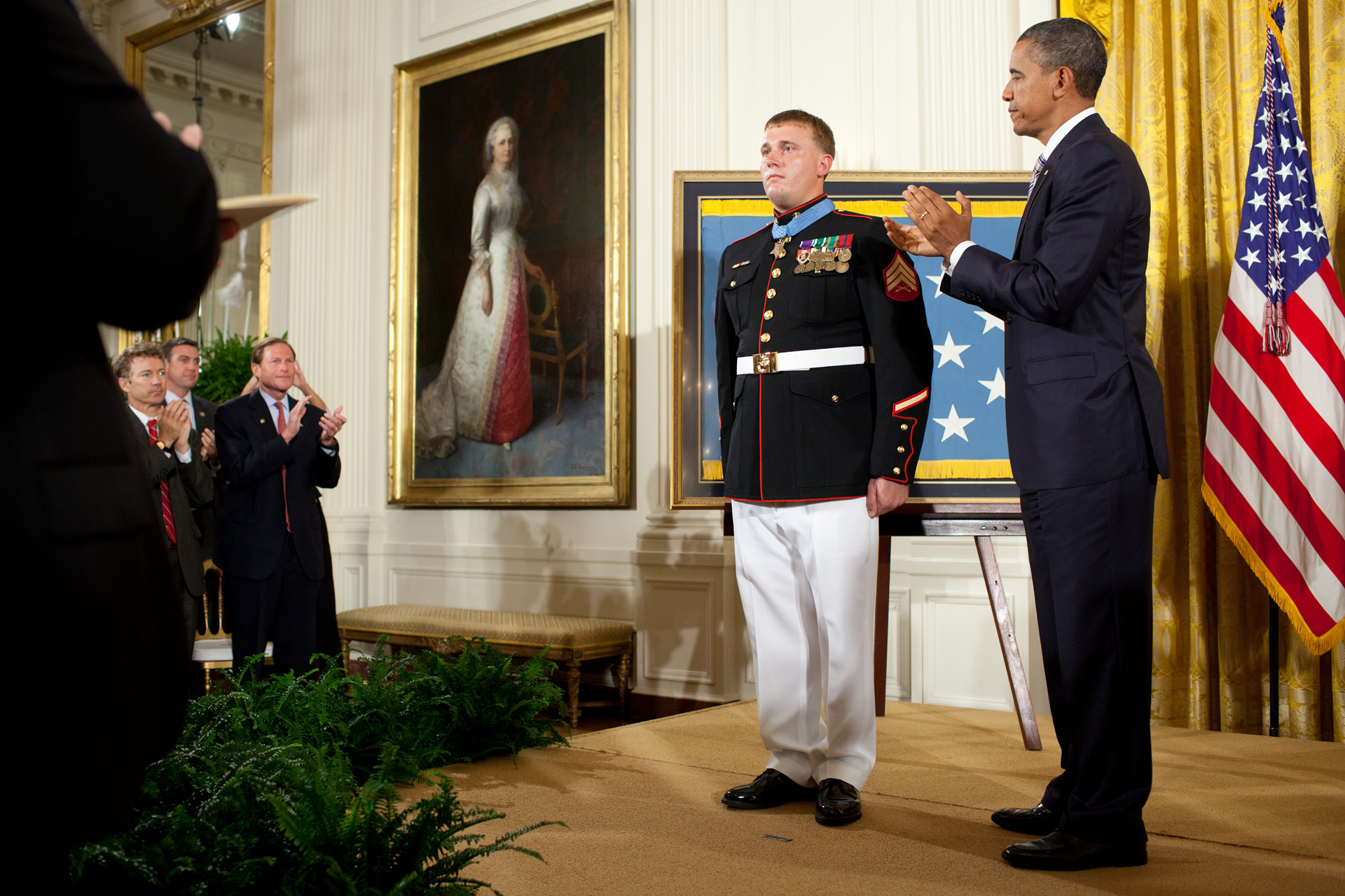 President Barack Obama and the audience applaud after Dakota Meyer was awarded the Medal of Honor during a ceremony in the East Room of the White House, Sept. 15, 2011.